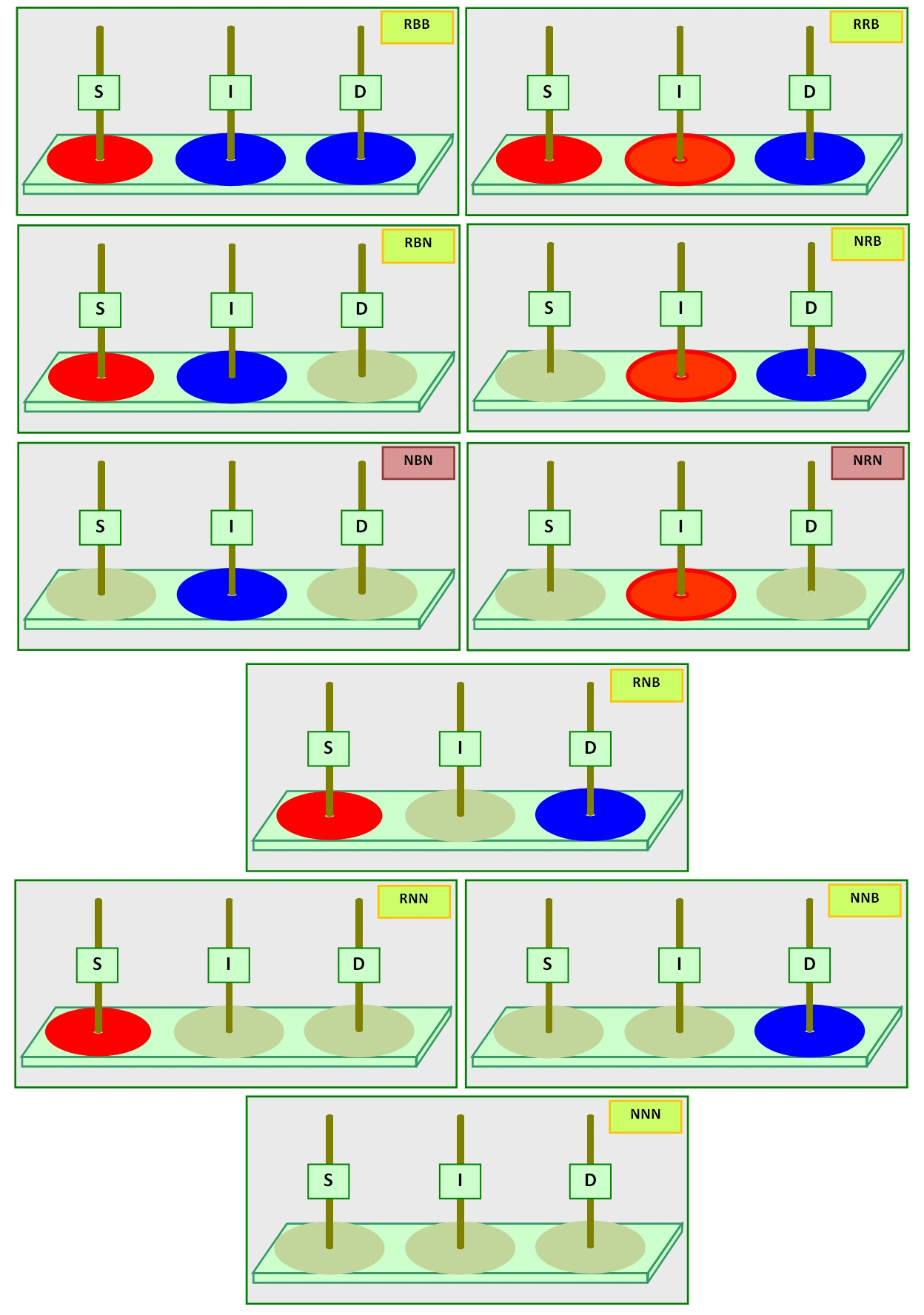 This diagrams shows variations of the colored magnetic tower of Hanoi (MToH) puzzle